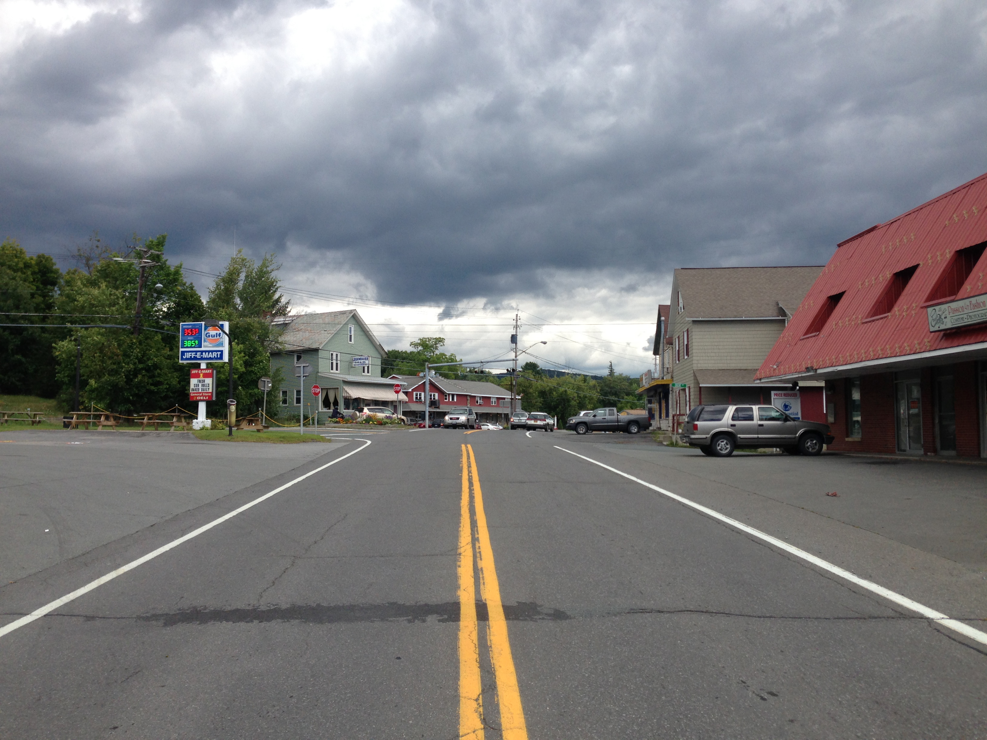 View east along West Sand Lake Road (New York State Route 43) in the Averill Park section of Sand Lake, New York